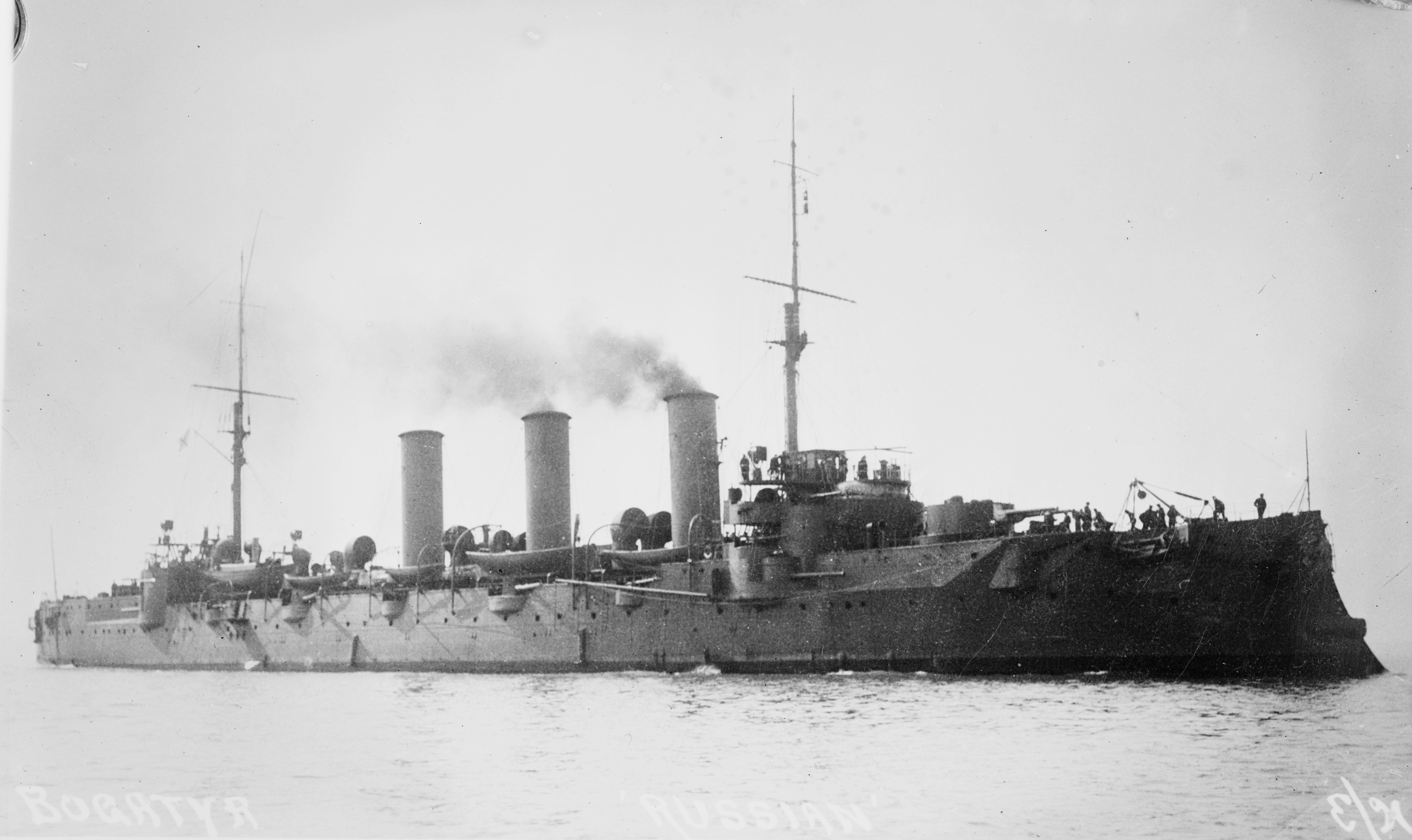 Imperial Russian cruiser Bogatyr'.